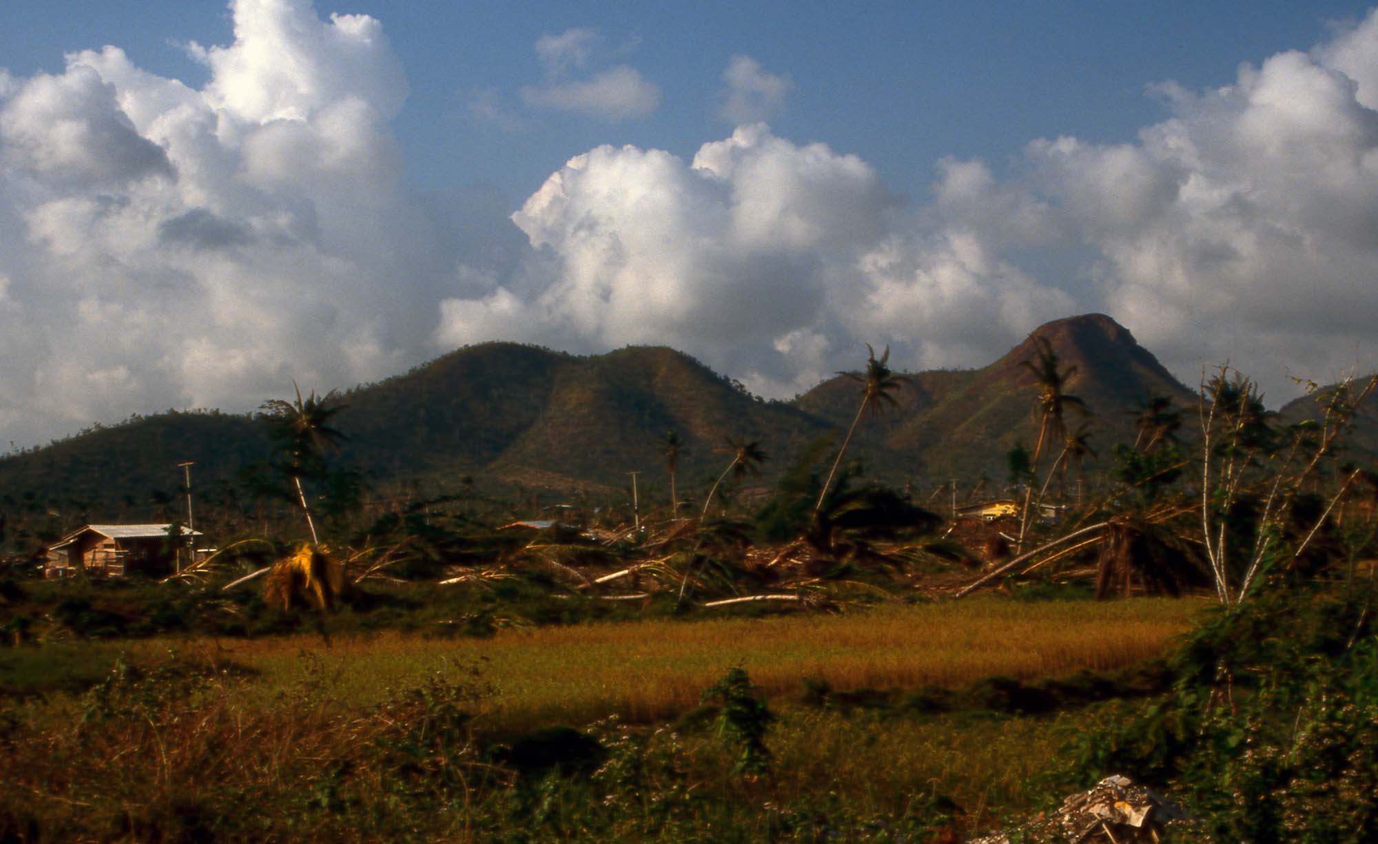 Damage of the typhoon Gay in November 1989 in the Thai province Chumphon. Photo taken in Pathiu(?) by H. Pollmeier.